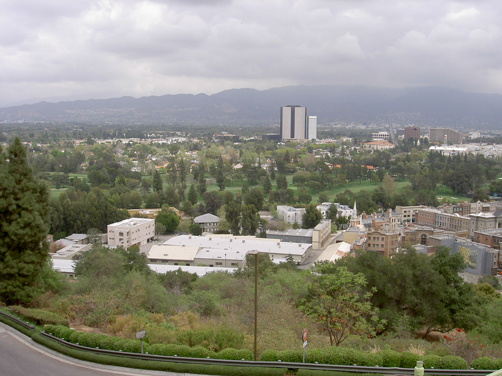 Looking north across Universal City; the larger buildings in the background are the media district of Burbank.